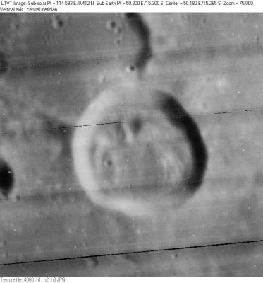 McClure is in the center. The 27-km crater partially visible in the upper left is McClure C. The shadow on the far left is from the east rim of 9-km McClure